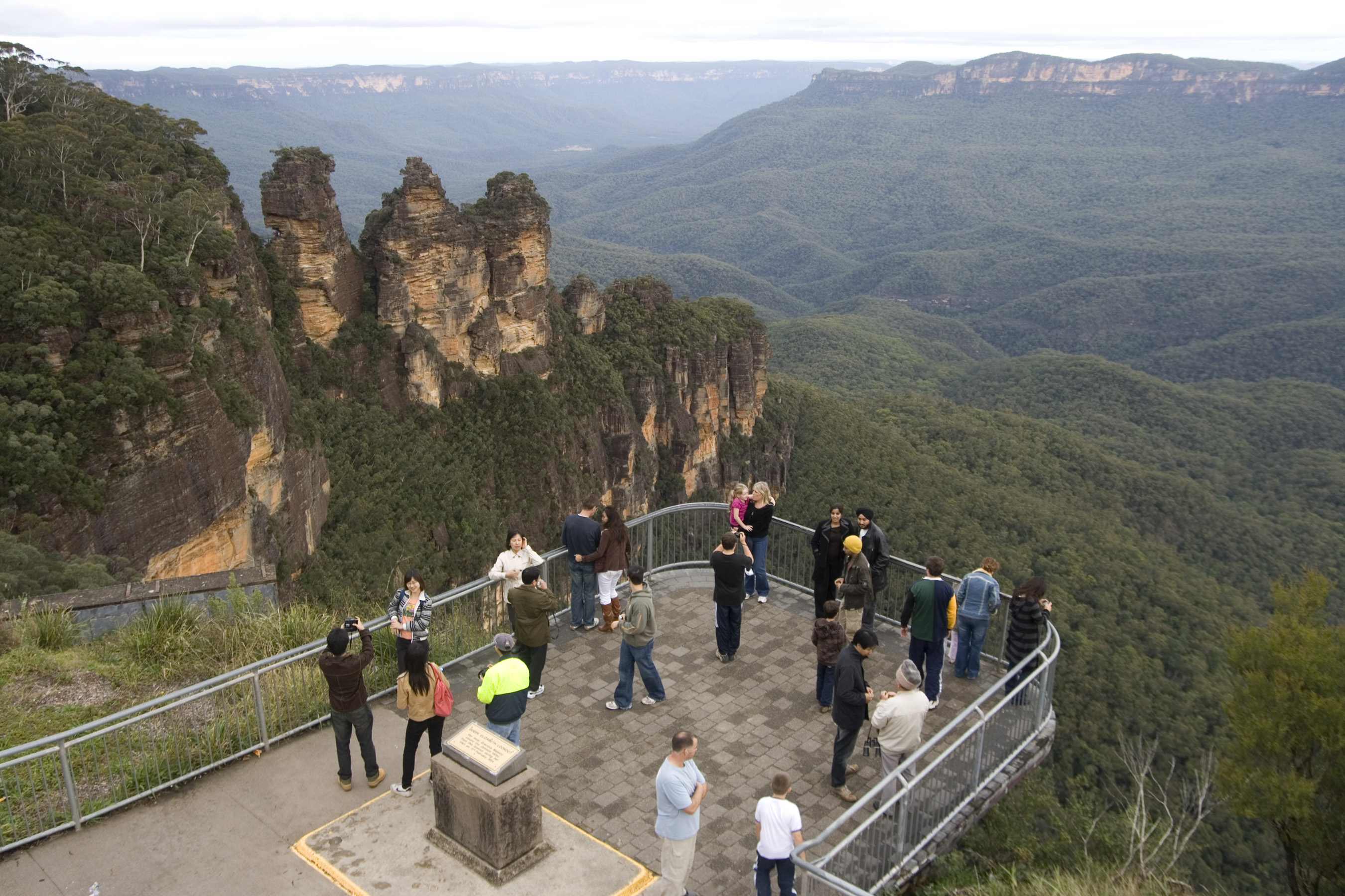 Three sisters and Echo point